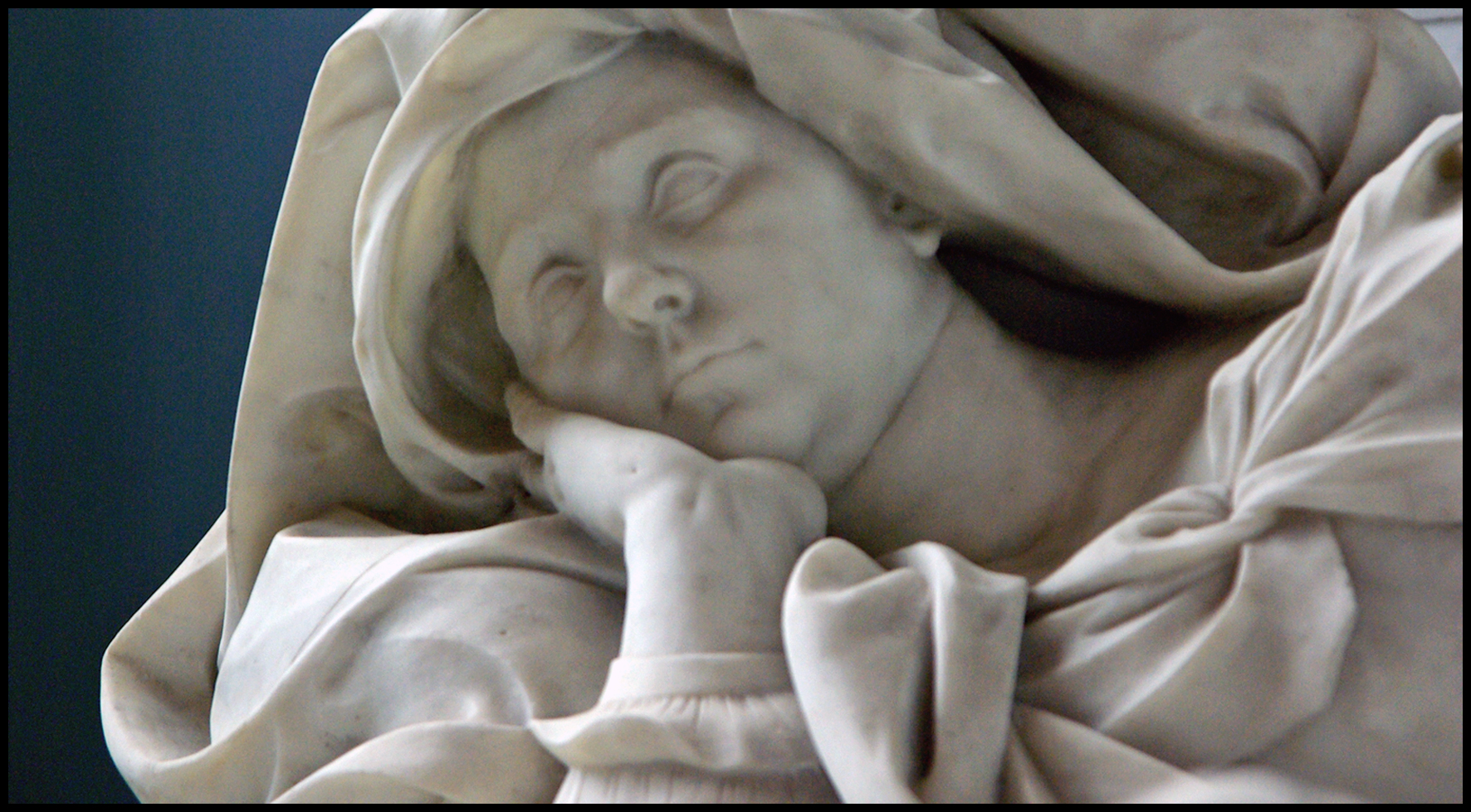 Katwijk aan den Rijn, Netherlands - Church (Dorpskerk) - The Tomb of Lyere.